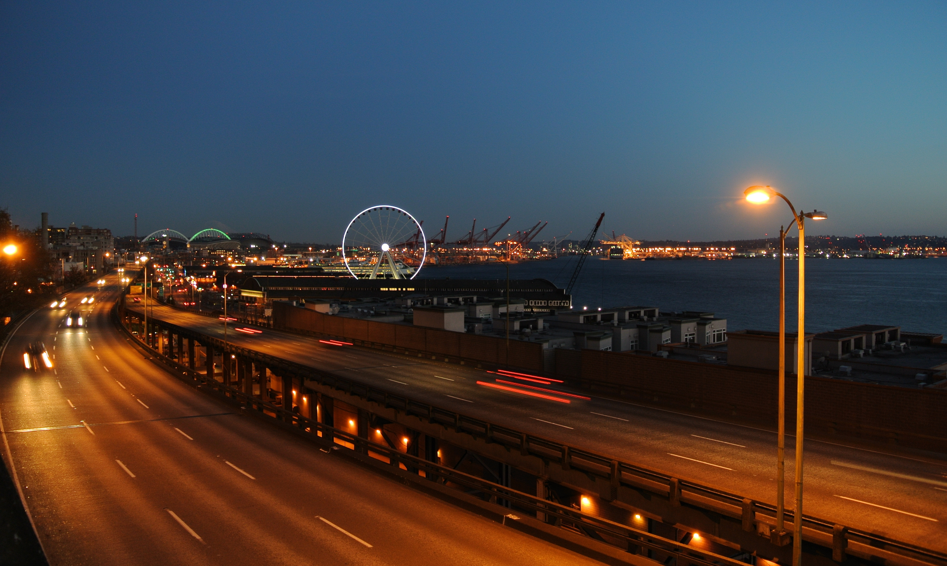 The Alaskan Way Viaduct in Seattle, part of Washington State Route 99, seen at the twilight looking southeast. Mount Rainier in the background.